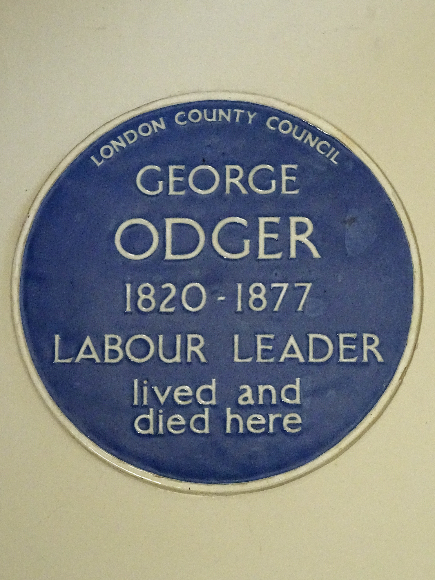 Above the chest in the south corner of the right hand (north) lobby of St Giles in the Fields is this blue plaque recovered from the demolished 18 St Giles High Street, commemorating George Odger (d.1877), who was secretary of the third congress of trade unions in 1871, which established the Trade Union Congress. A sign below the plaque says 'The George Odger plaque, formerly on 18 St Giles High Street, was placed here in 1974'.